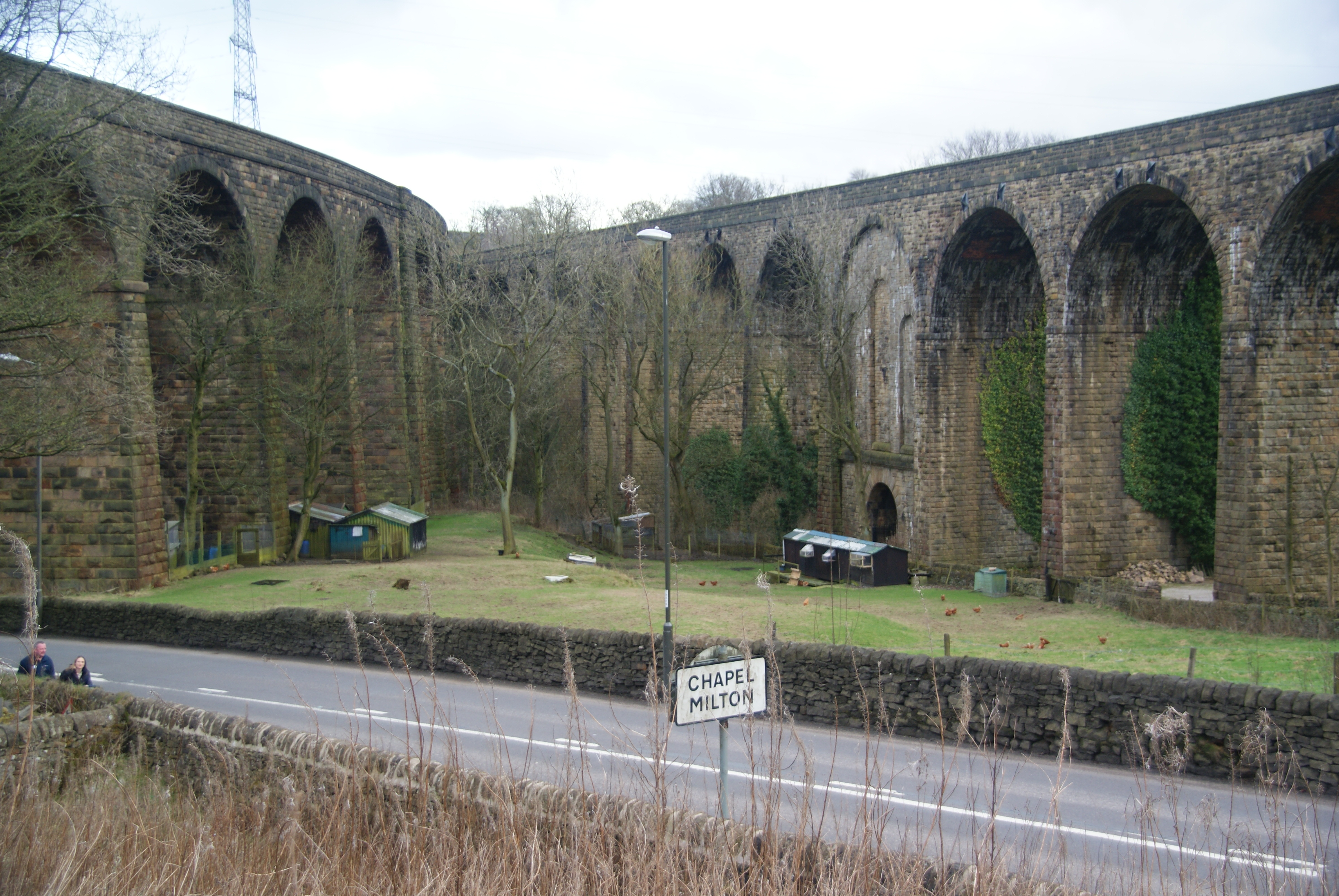 Converging viaducts at Chapel Milton